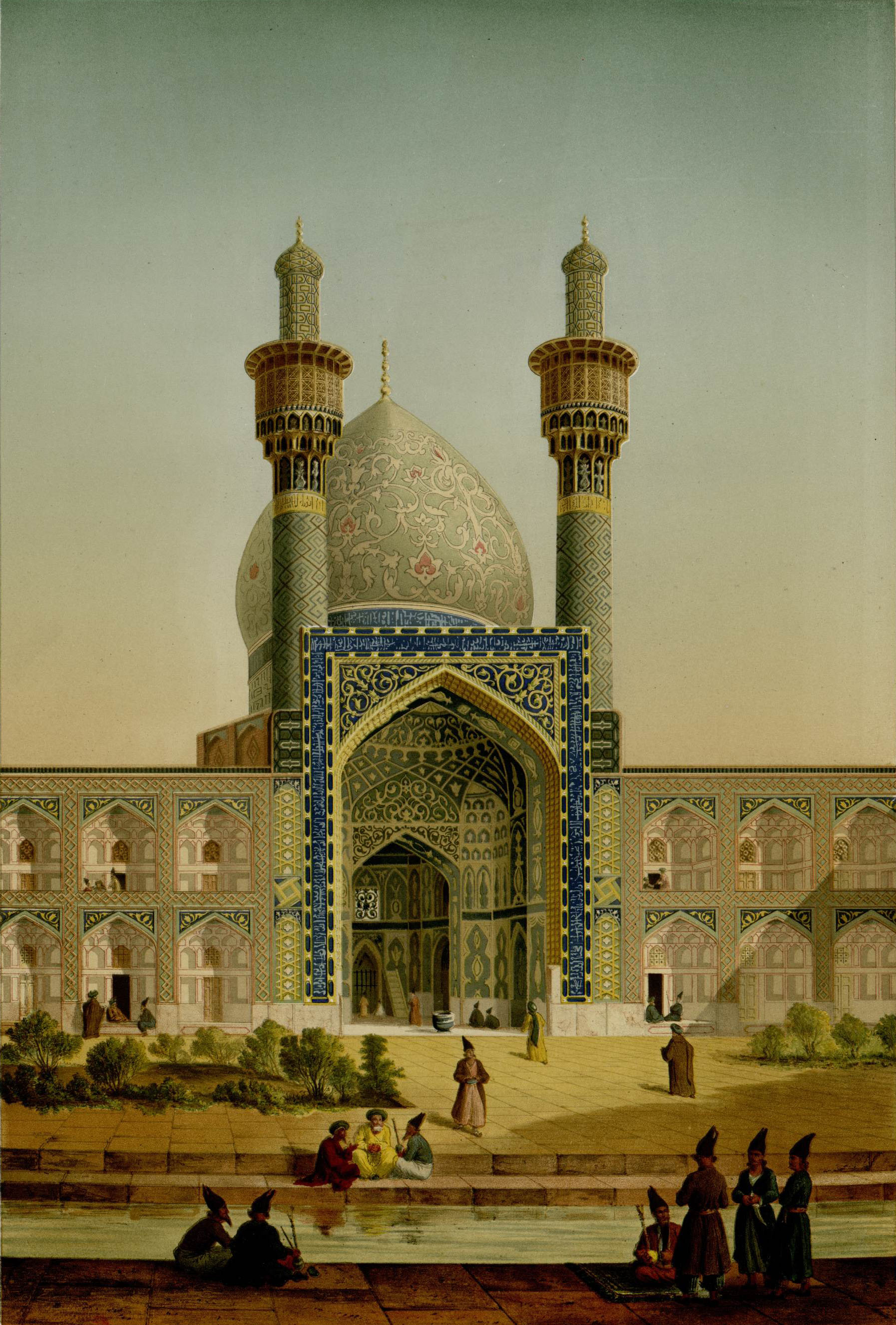 College of mother of Shah Sultan Hussein, Exterior